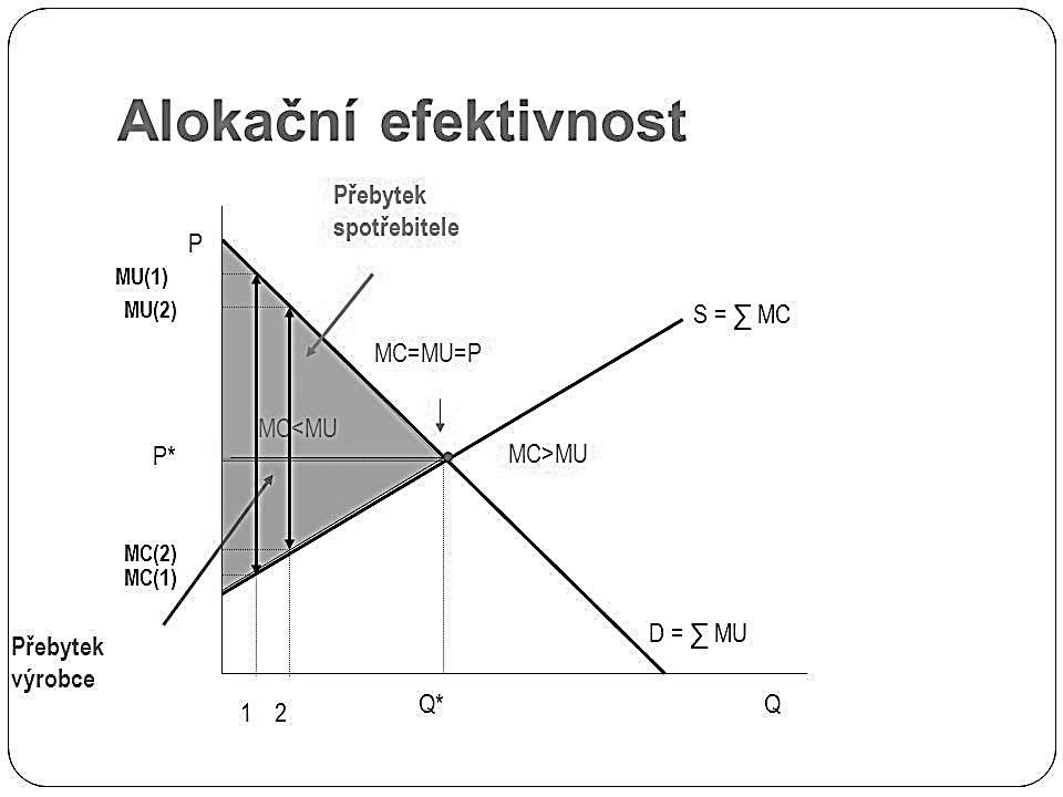 Allocation efficiency in a graph